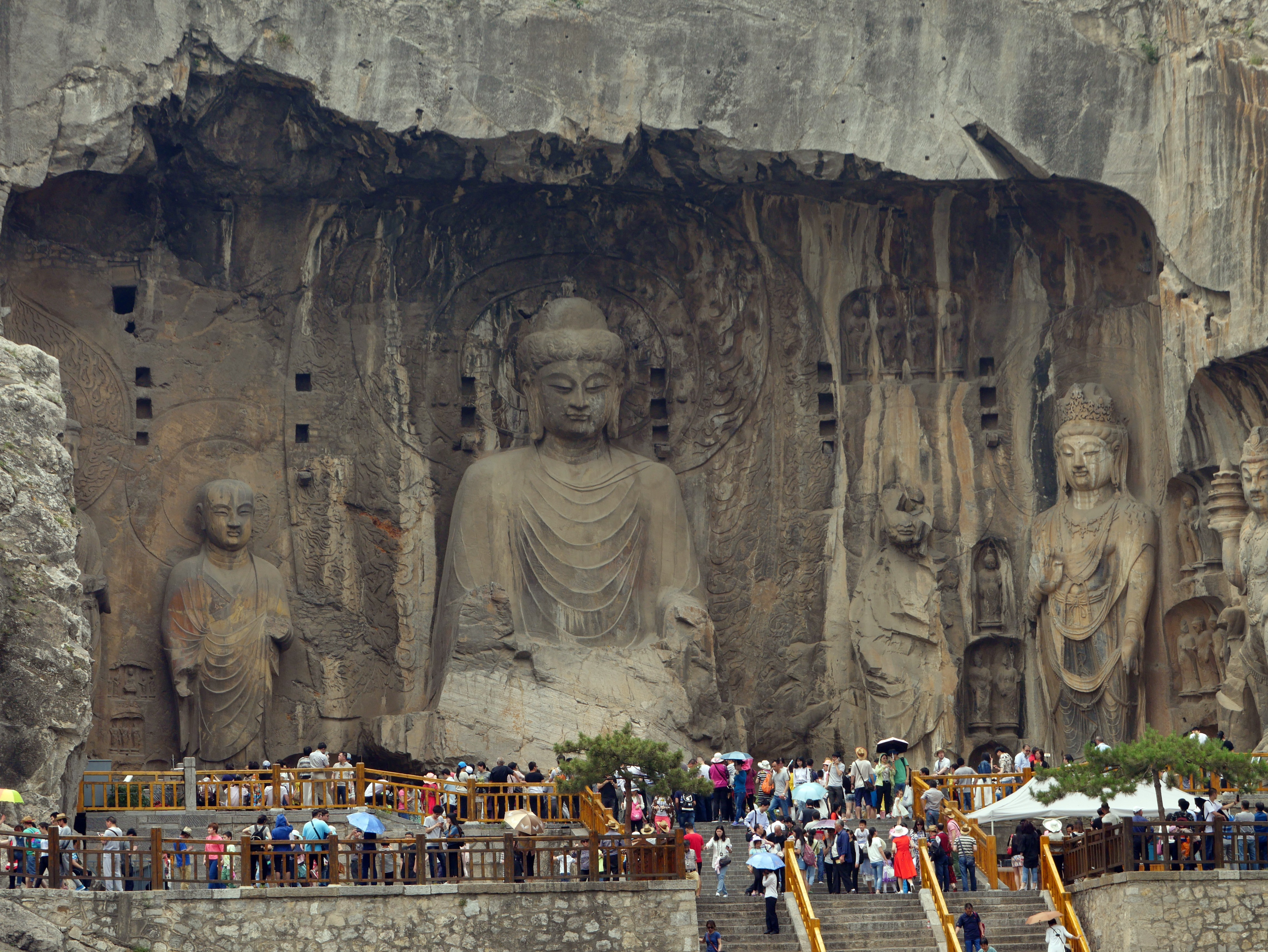 Longmen Grottoes, near Luoyang, China